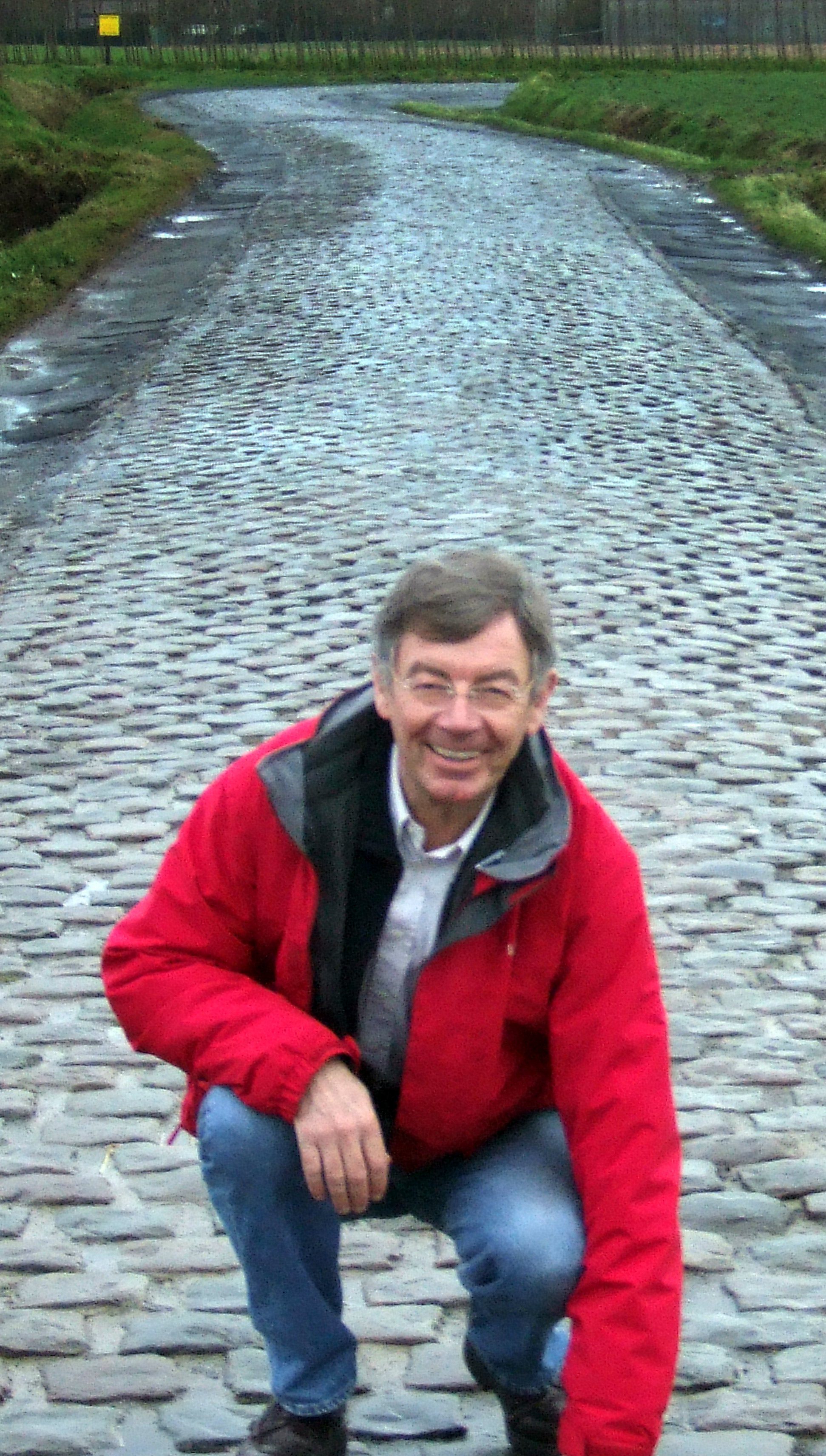 Alain Bernard, President of Les Amis de Paris-Roubaix, posing for his friend Les Woodland, (the uploader), on the pave of the Nord Pas de Calais, France.